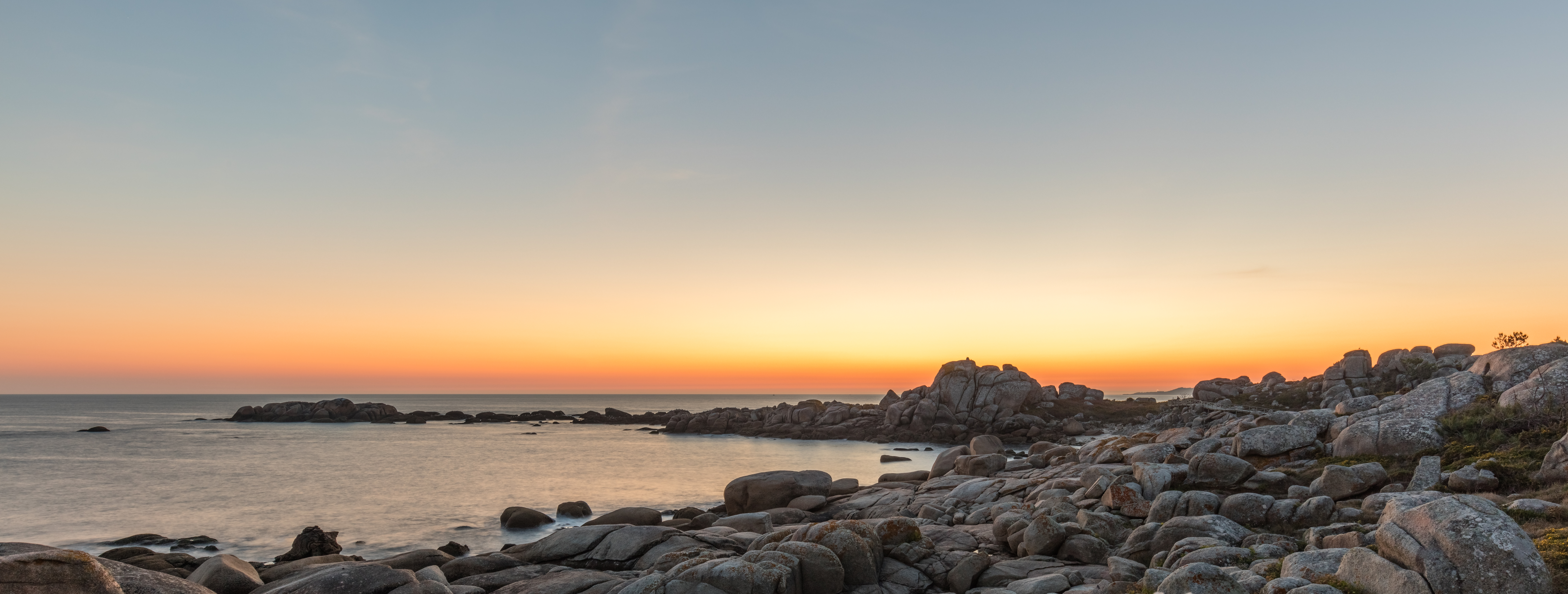 View of the Pedras Negras ("Black Stones") in the Canelas Cape during sunset, coast of San Vicent do Grove, O Grove, Province of Pontevedra, Spain.